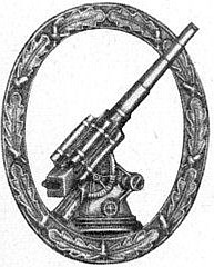 Heeres-Flakabzeichen denazified version of 1957